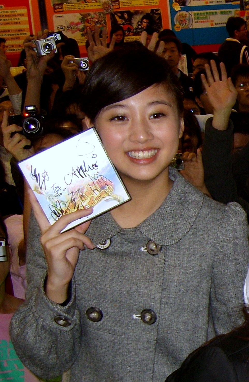 2007 Taipei IT Month: Members from Hey Girl at booth of Chinese Gamer International Corp.